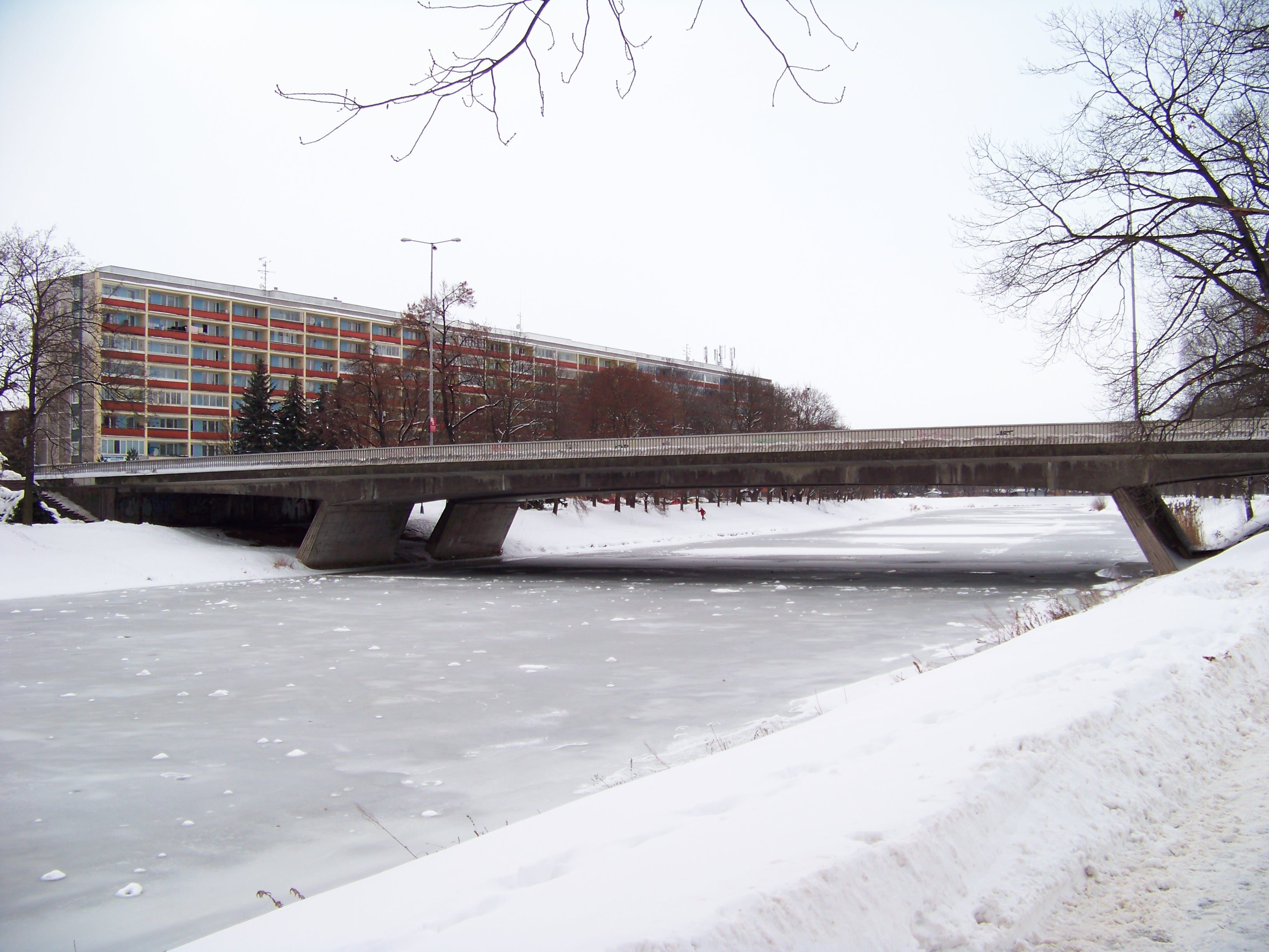 Hradec Králové, the Czech Republic. Labský Bridge. - Google Maps - Google Earth